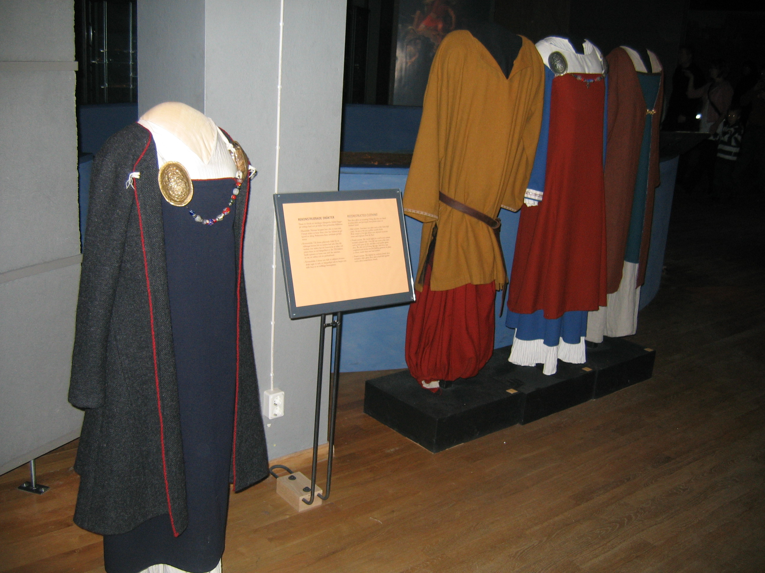 Viking clothes